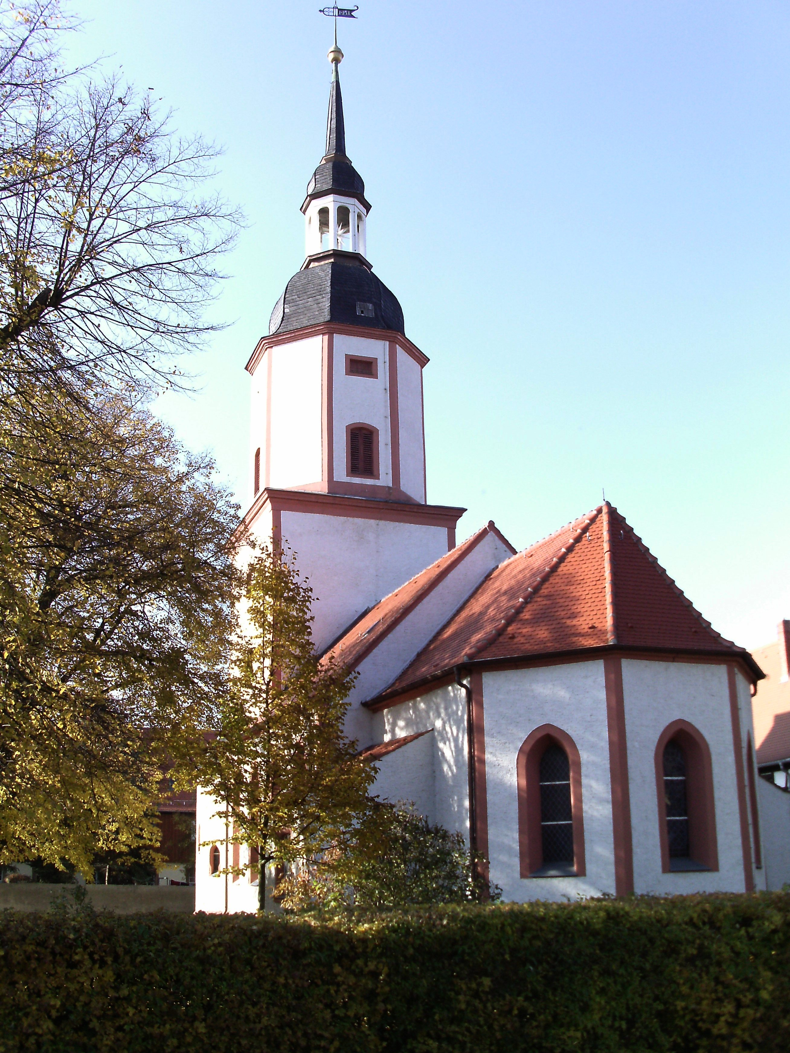 St. Lawrence Church of Zöpen, Kahnsdorf (Neukieritzsch, Leipzig district, Saxony)